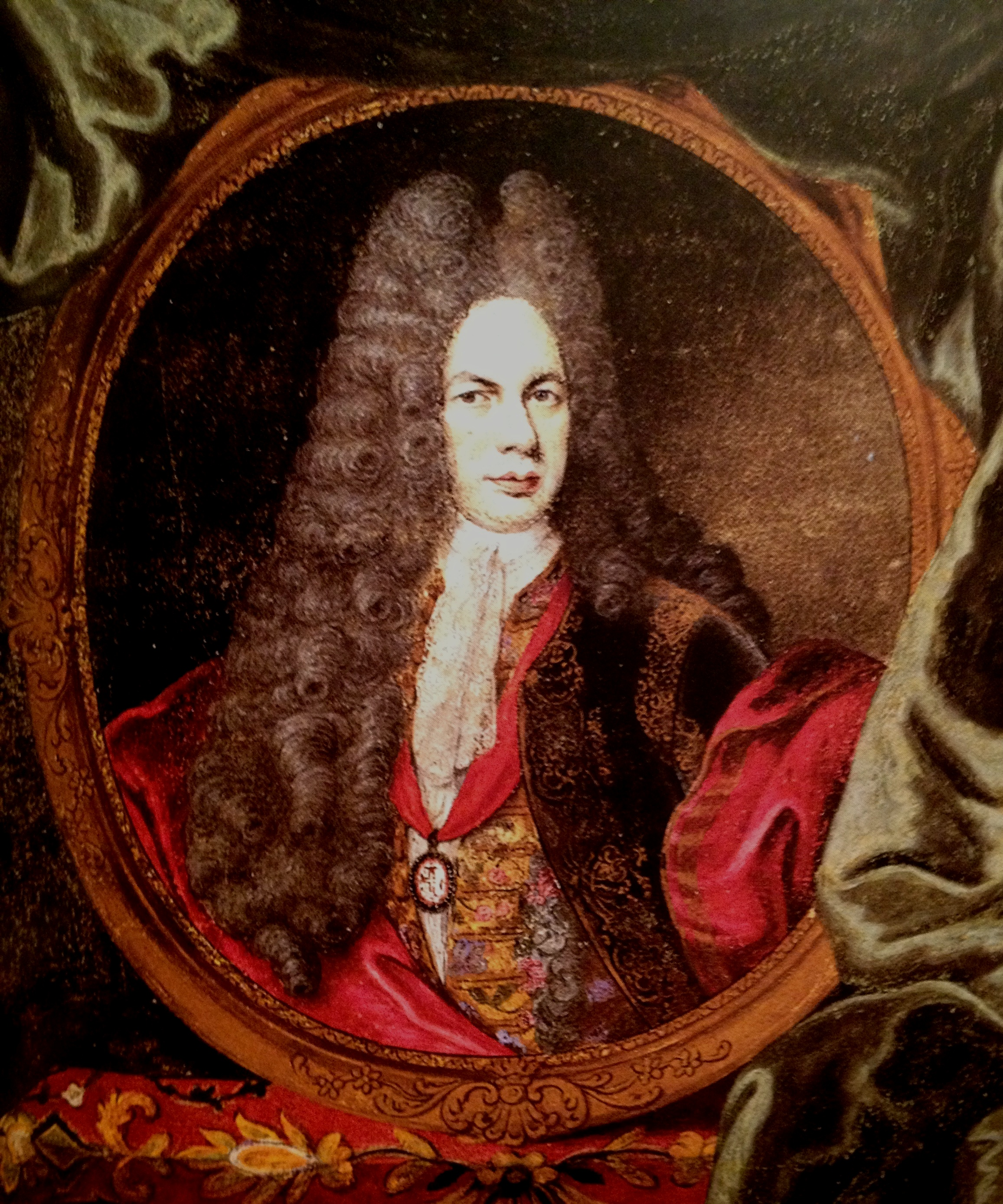 Minsitro